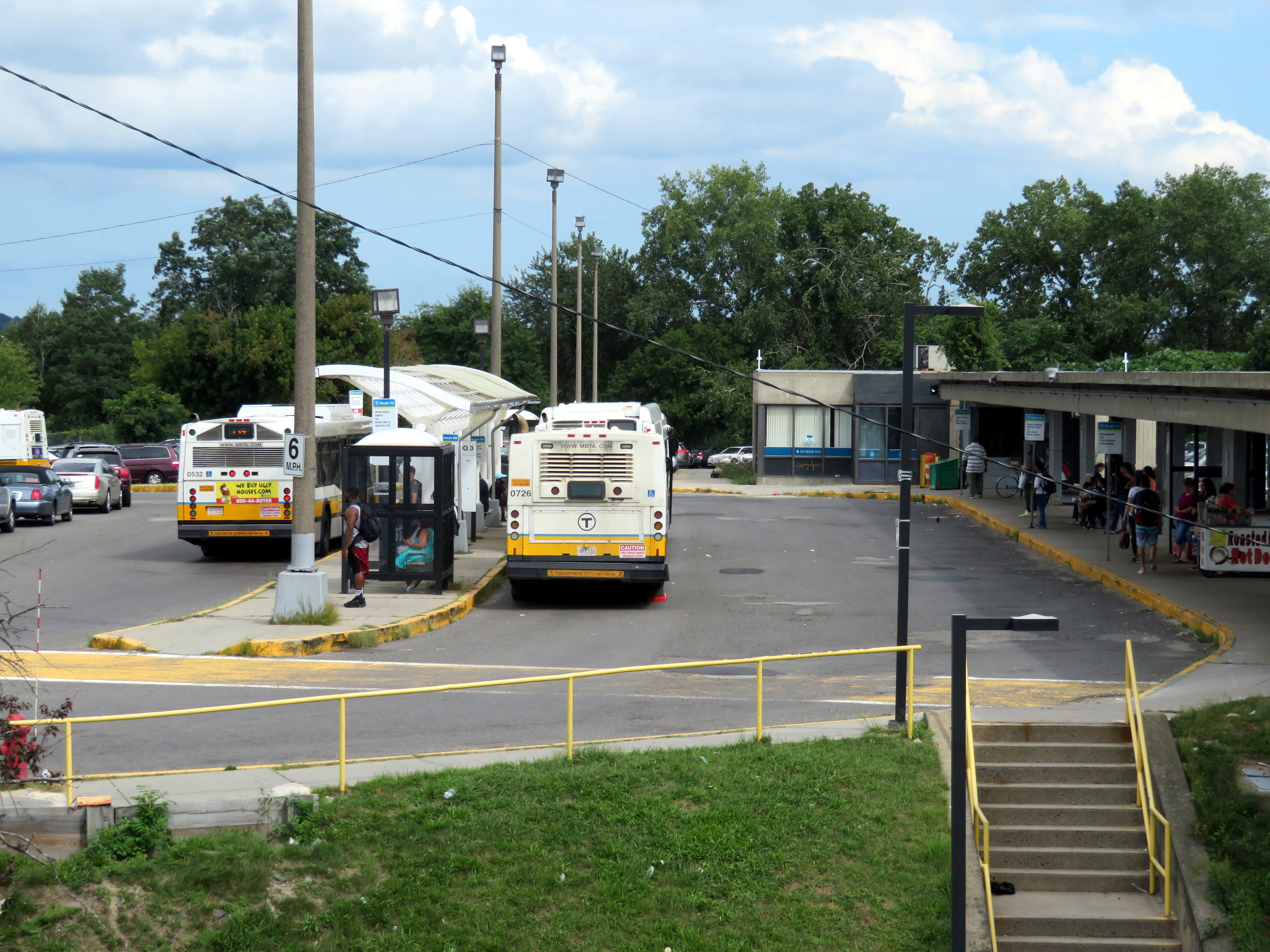 The busway at Wellington station in August 2018